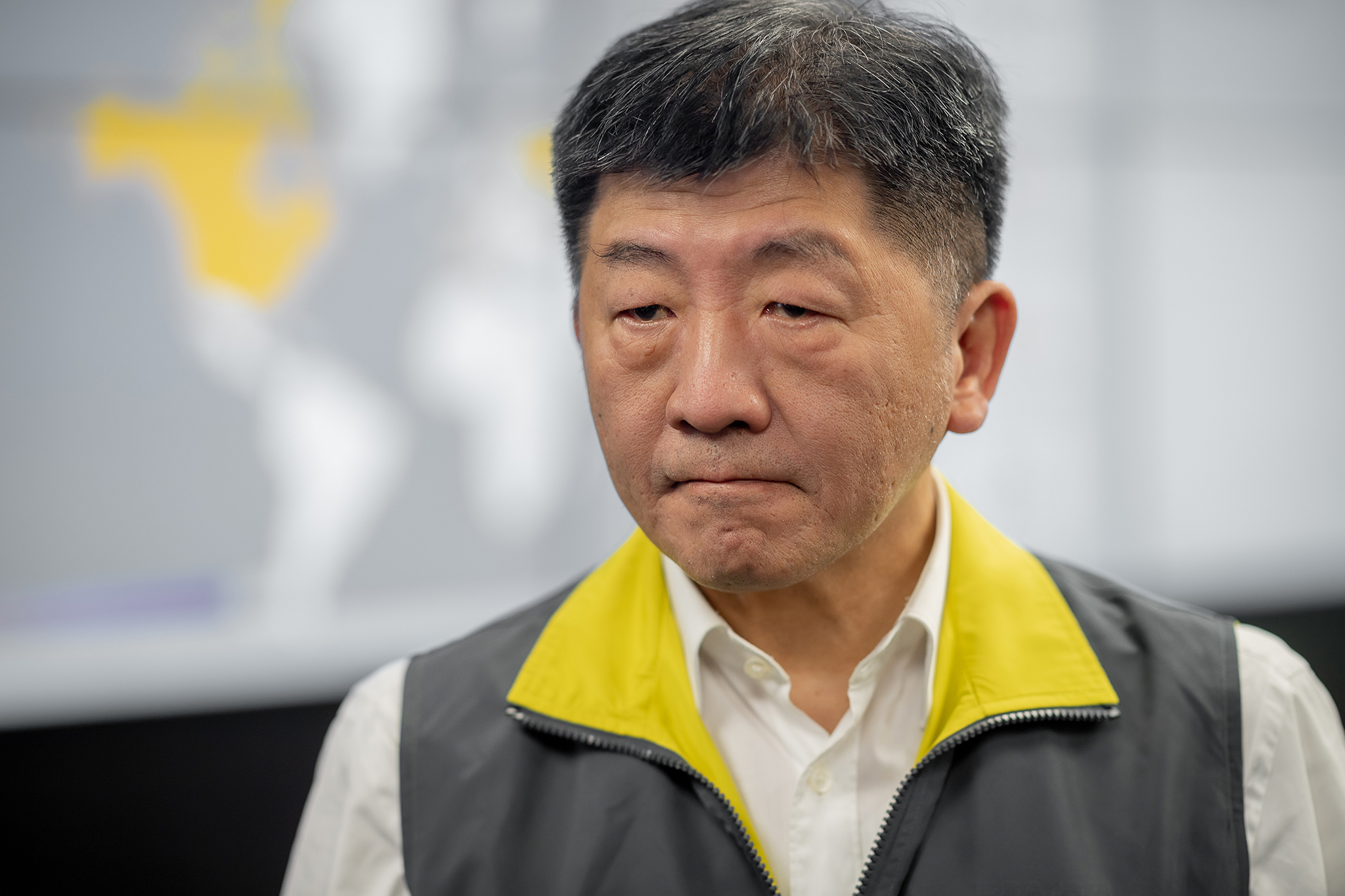 Official Photo by Makoto Lin / Office of the President